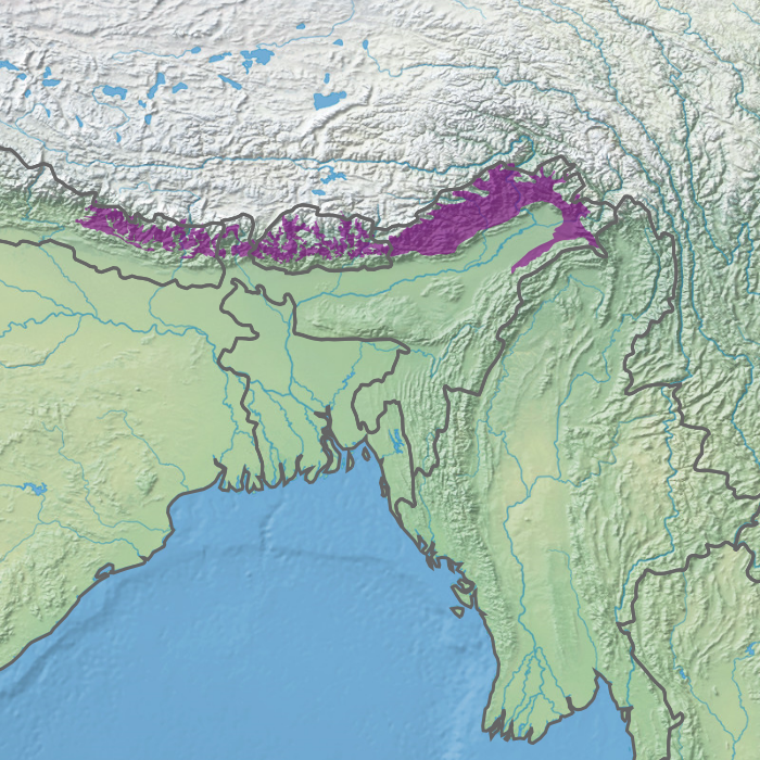 Ecoregion IM0401 - Eastern Himalayan broadleaf forests (in purple)